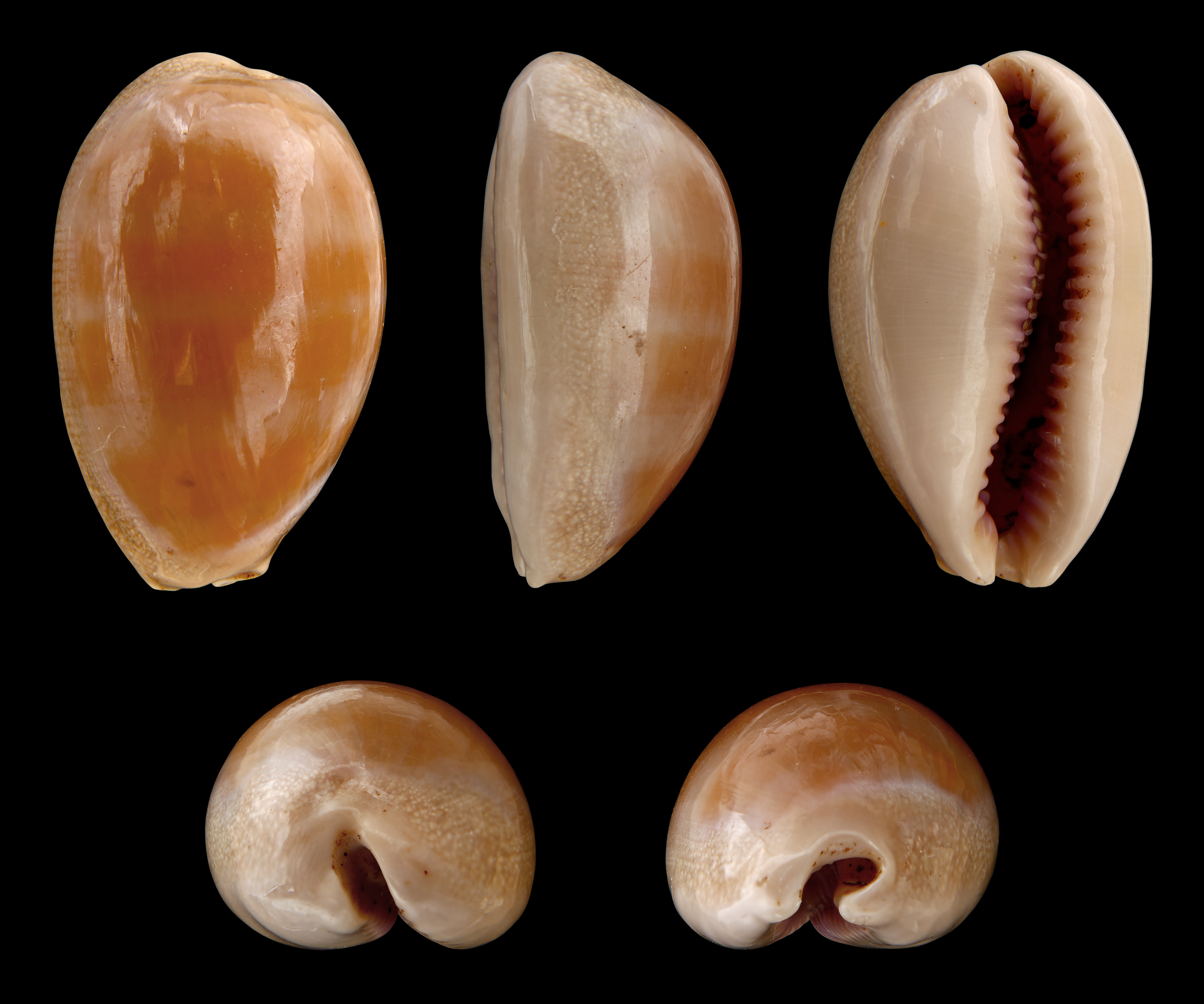 Carnelian Cowrie, Length 3,3 cm; Originating from the Indo-Pacific; Shell of own collection, therefore not geocoded.Dorsal, lateral (right side), ventral, back, and front view.